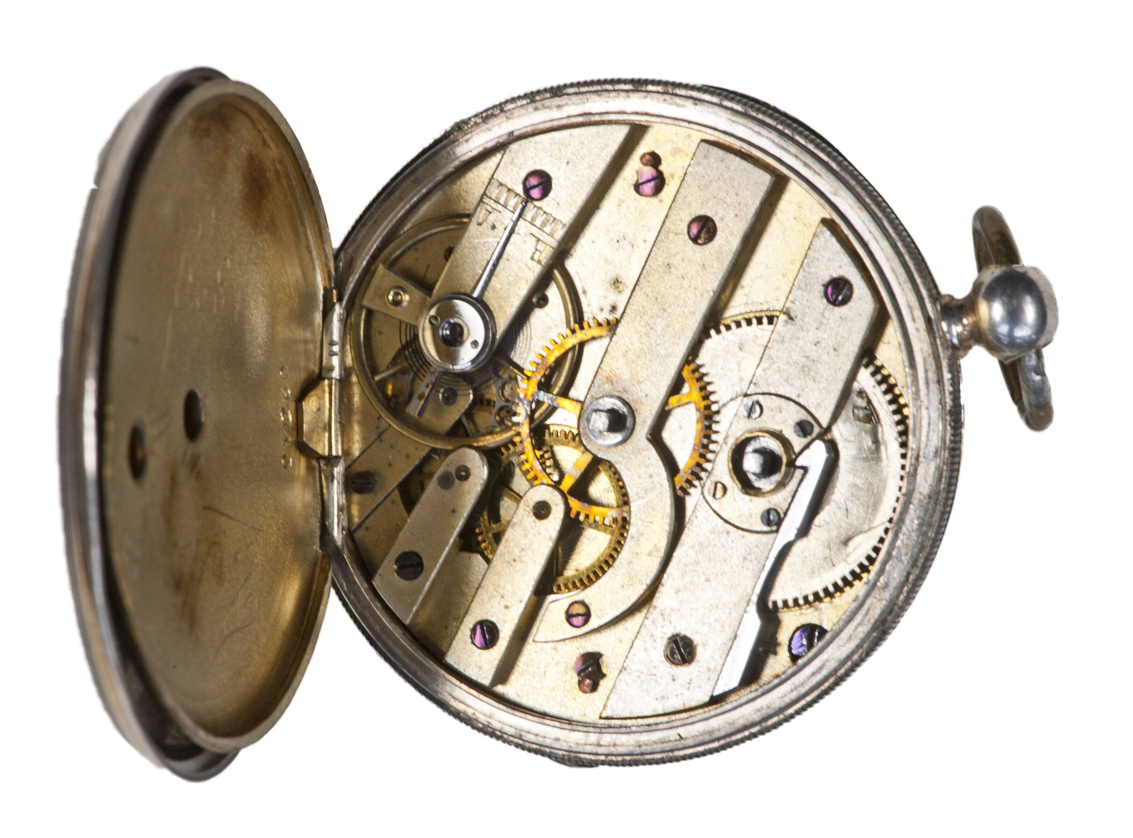 Watch with no background